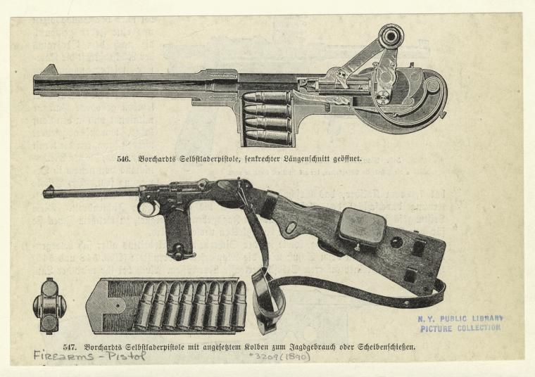 TITLE: Borchardt pistols. Content: Printed on image: "Borchardts Selbstladerpistole, senkrechter Längenschnitt geöffnet." "Borchardts Selbstladerpistole mit angesetztem Kolben zum Jagdgebrauch oder Scheibenschiessen."